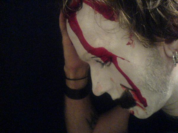 Ole Alexander Myrholt, Tremor (band)